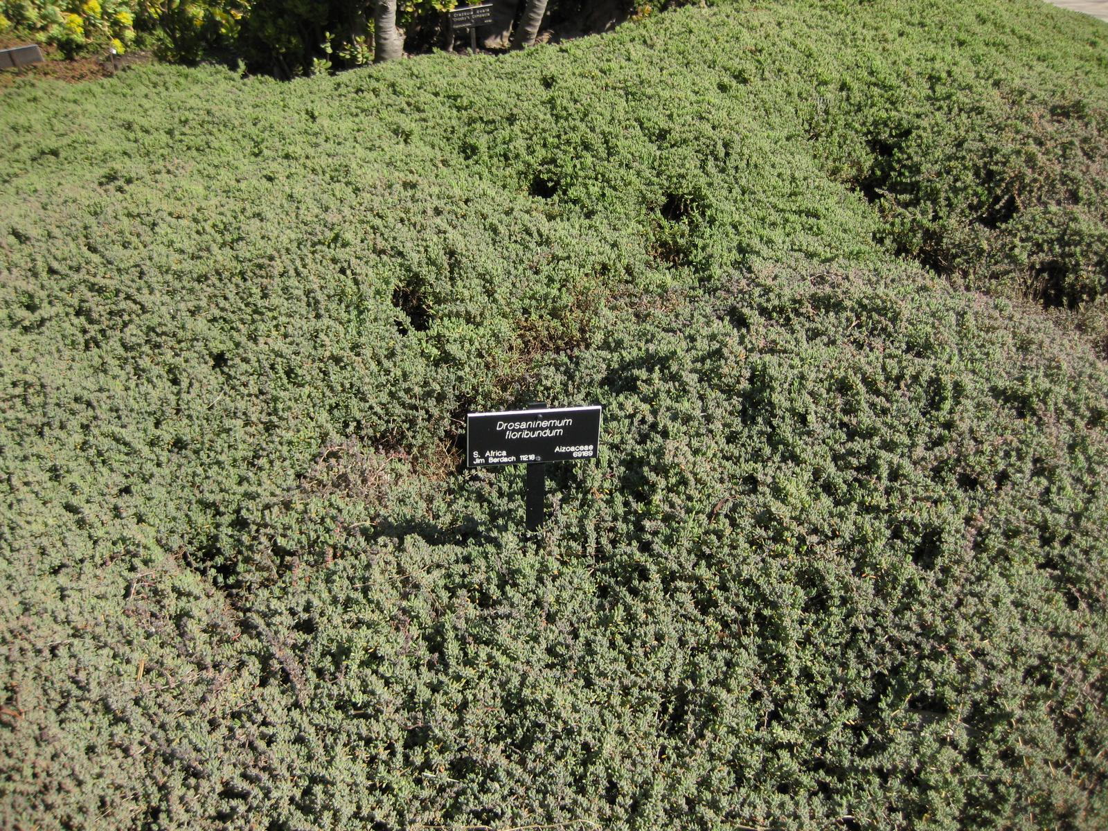 Photographed at Huntington Gardens (Los Angeles, California) in March